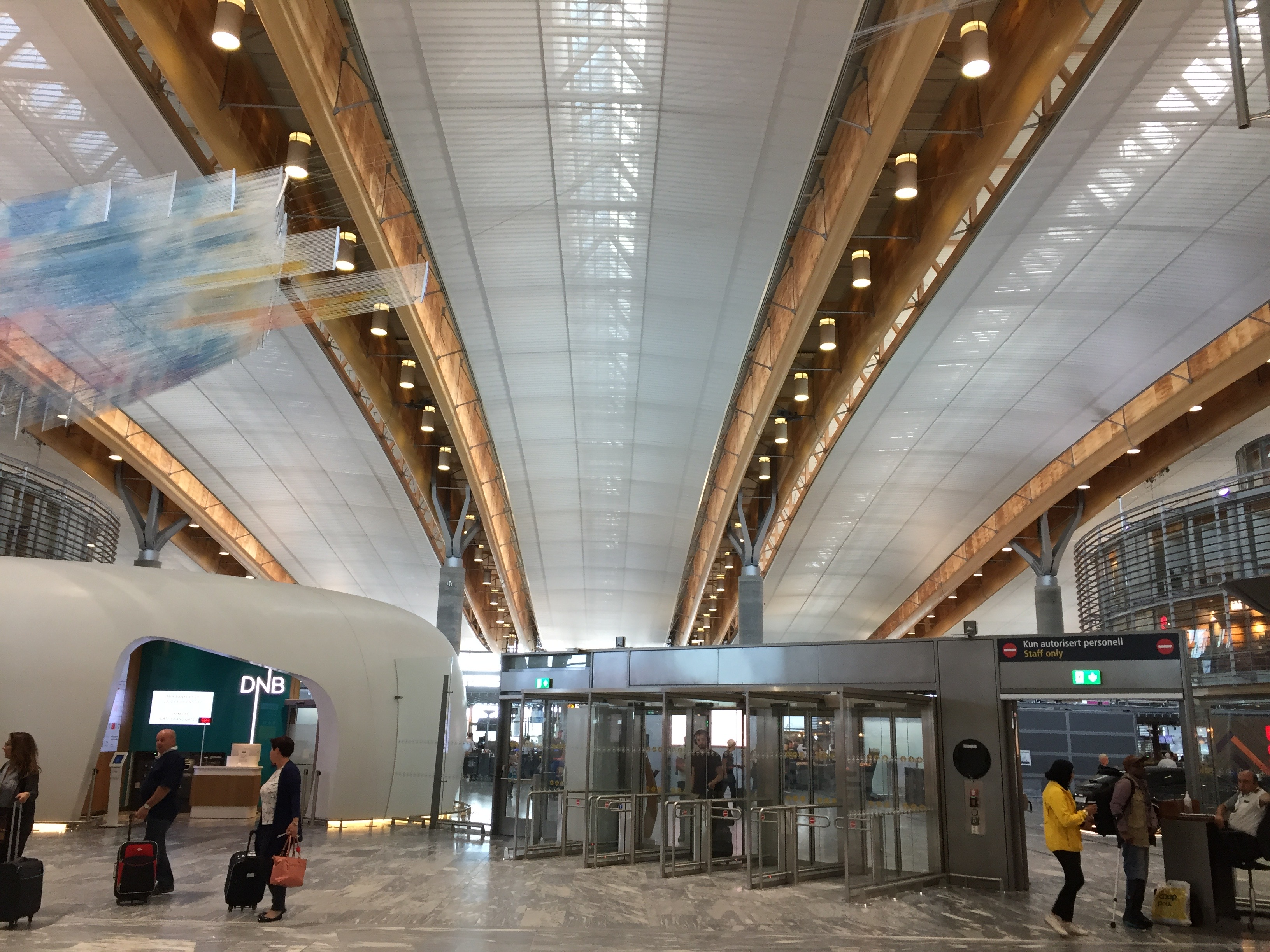 Interior of Oslo Airport in 2018